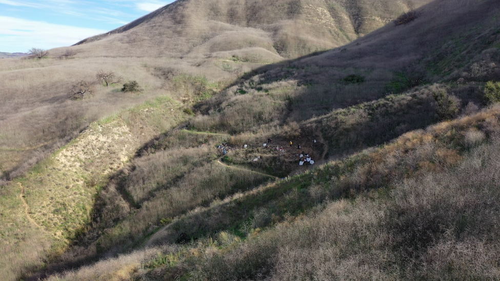 Sikorsky SK76B accident, 1-26-20, Calabasas, CA. Still image from drone video duplicating the flightpath of N72EX at position/altitude of last ADS-B target (NTSB image).